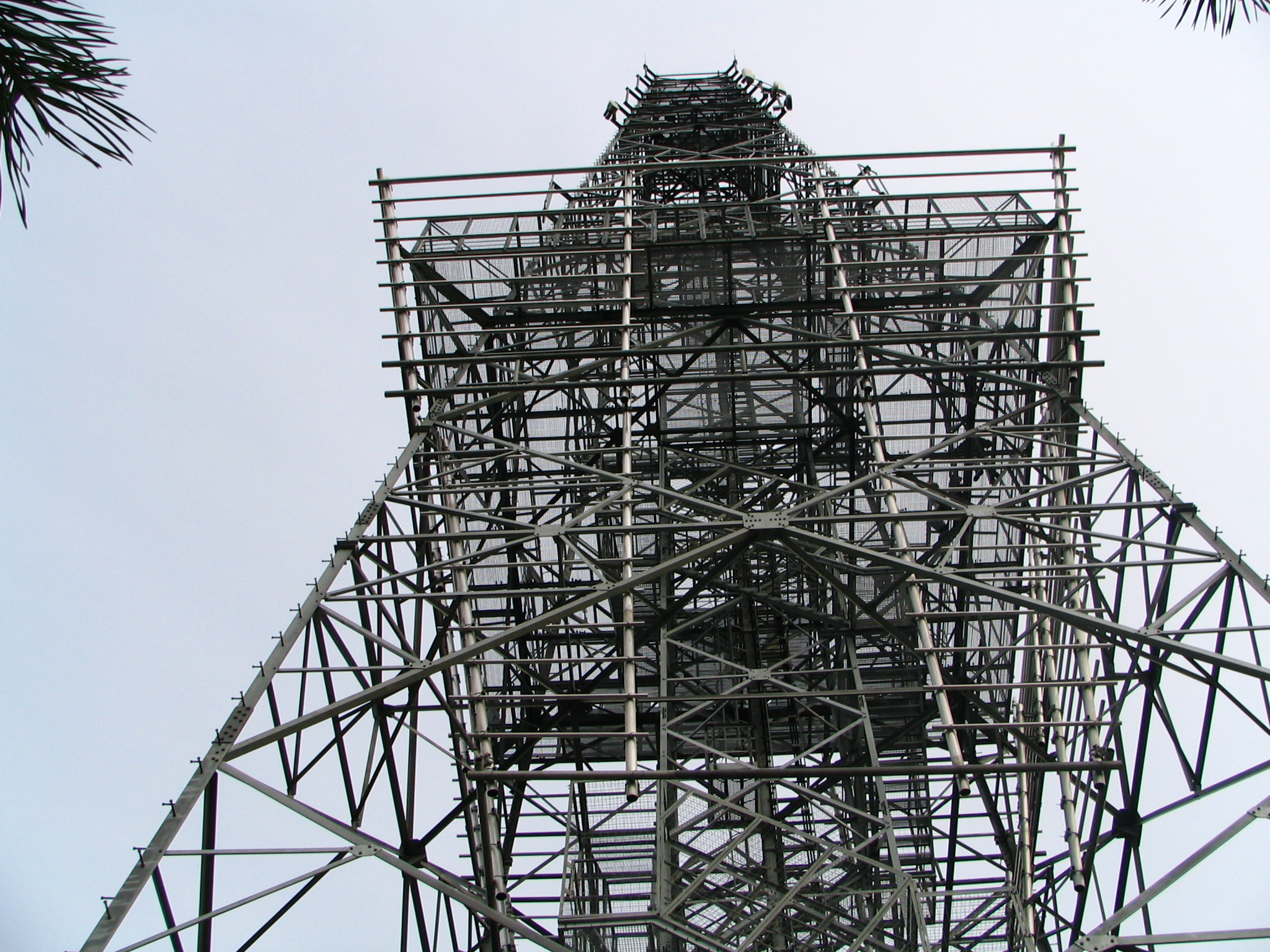 GSM tower on the top of Donas mount, city of Gdynia, Pomerania, Poland